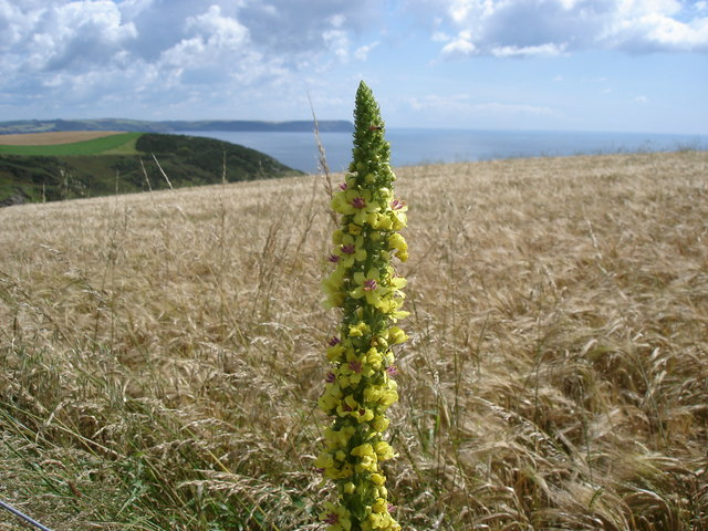 Great Mullein - Verbascum thapsus